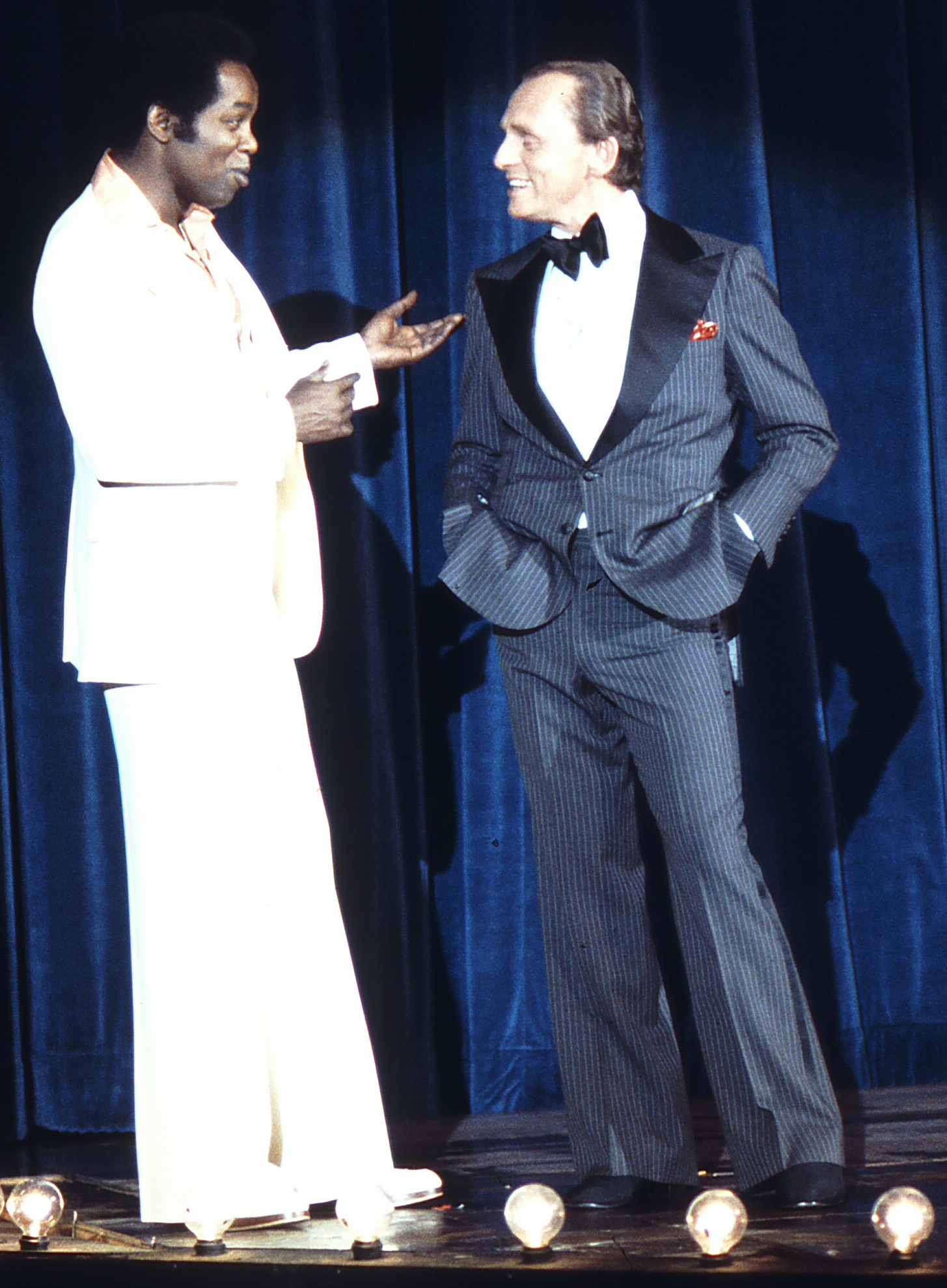 Lou Rawls and Frank Gorshin performing at Knott's Berry Farm in 1977.